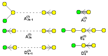 Twisted affine Dynkin diagram